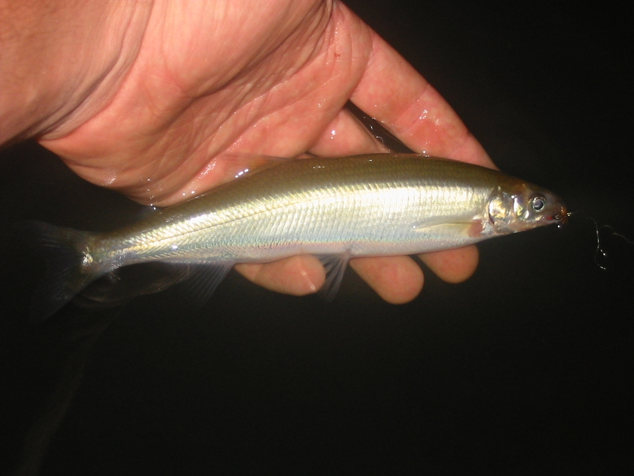 A relatively small Australian grayling, caught from a small coastal stream in south-west Victoria, on a small dry fly (visible in picture). The grayling was carefully released after the photo. Photo upload with permission from the photographer Nathan Litjens. Please acknowledge Nathan Litjens as the source of this this photo if you reproduce it.